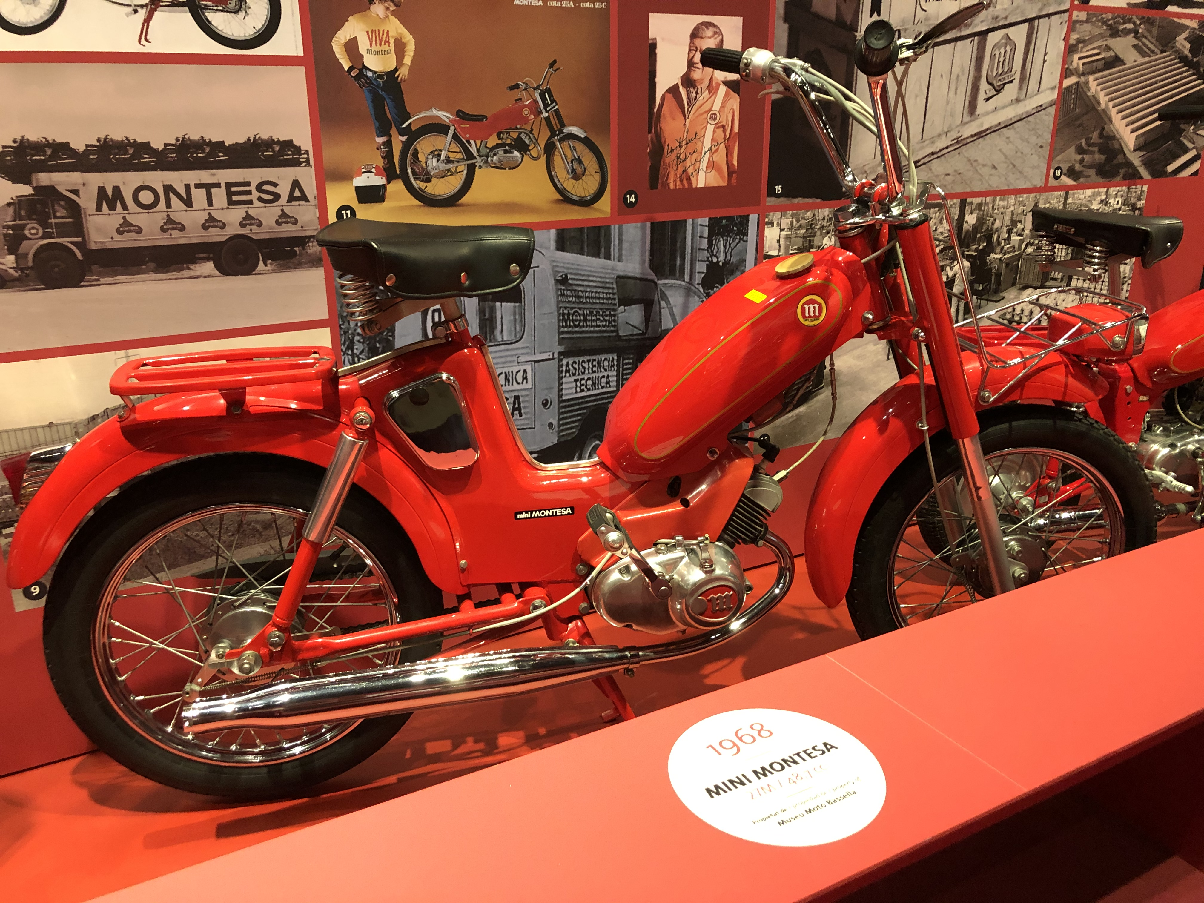 Mini Montesa (1968), Mod. 27M, 48.7 cc